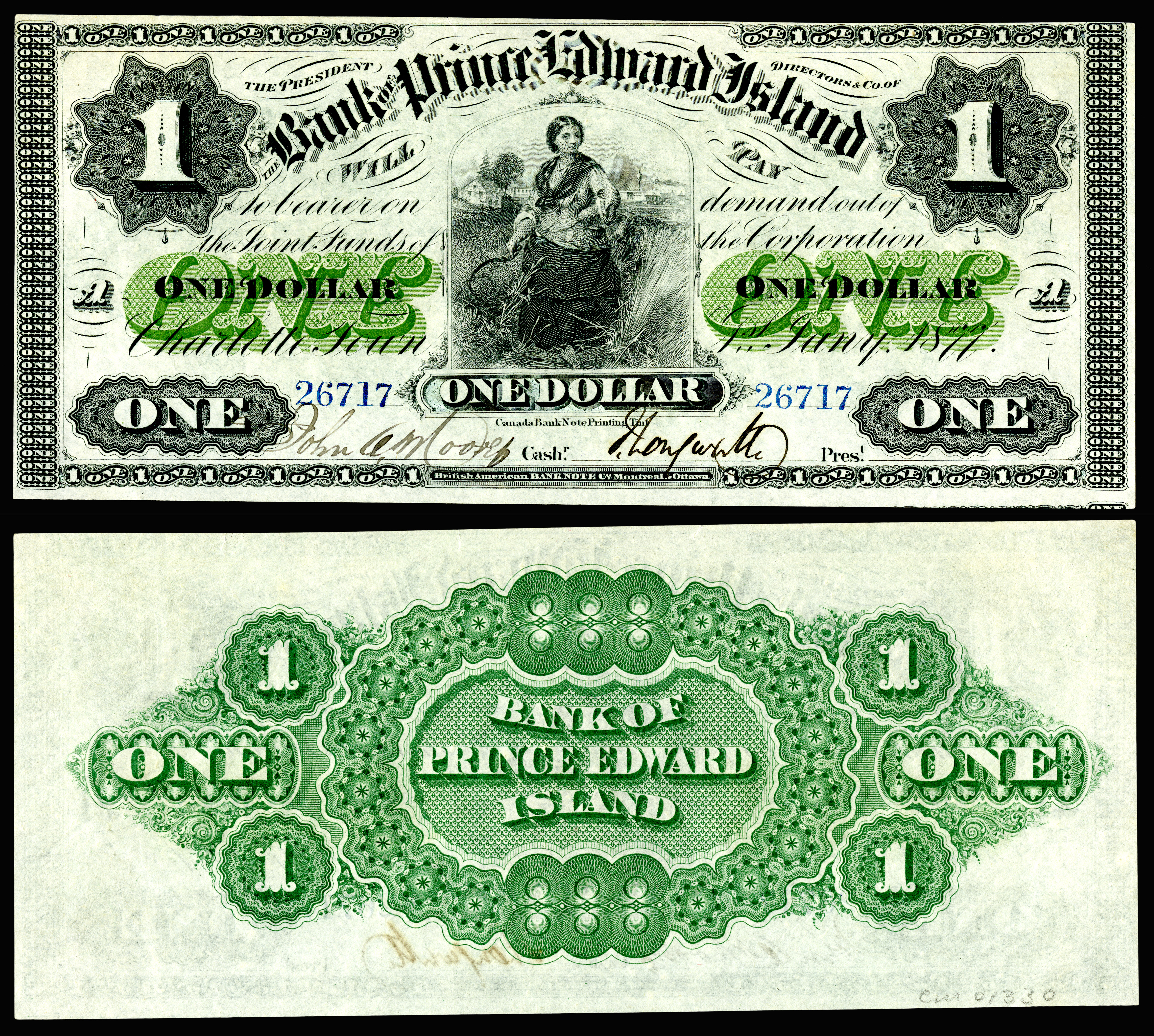 Bank of Prince Edward Island note, One Dollar, (1877).